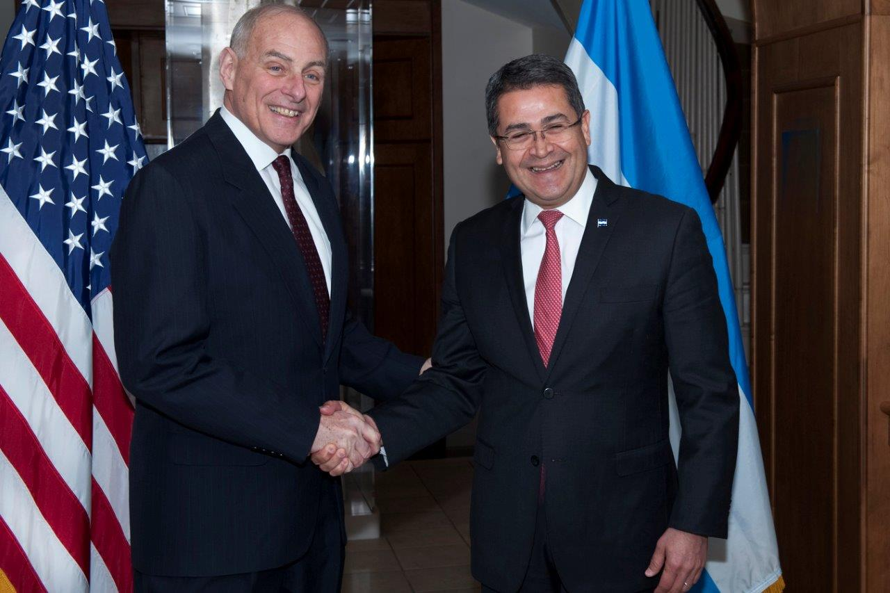 WASHINGTON— Secretary of Homeland Security John Kelly meets with President Juan Orlando Hernandez of Honduras, to discuss bilateral and regional security and economic issues of mutual interest in Washington, D.C., March 22, 2017. Secretary Kelly highlighted the importance of joint collaboration to combat transnational crime, reduce narcotics trafficking, share information, and promote economic opportunity in the region. Official DHS photo by Barry Bahler.